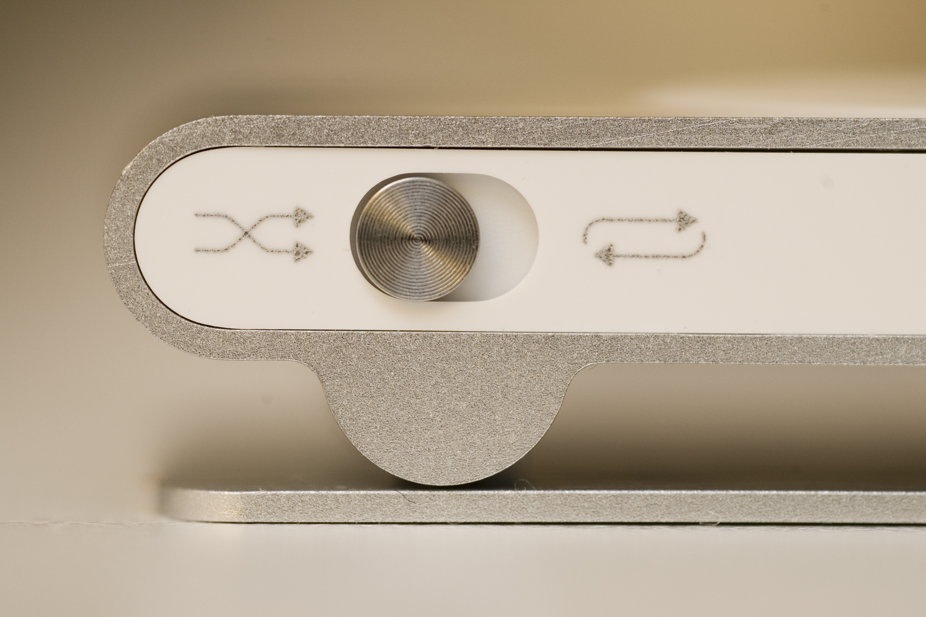 a gift i received today... thanks sis! my first ipod.